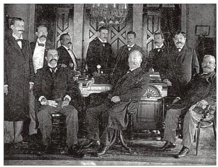 General J.Zelaya, president of Nicaragua and his minisers in 1900